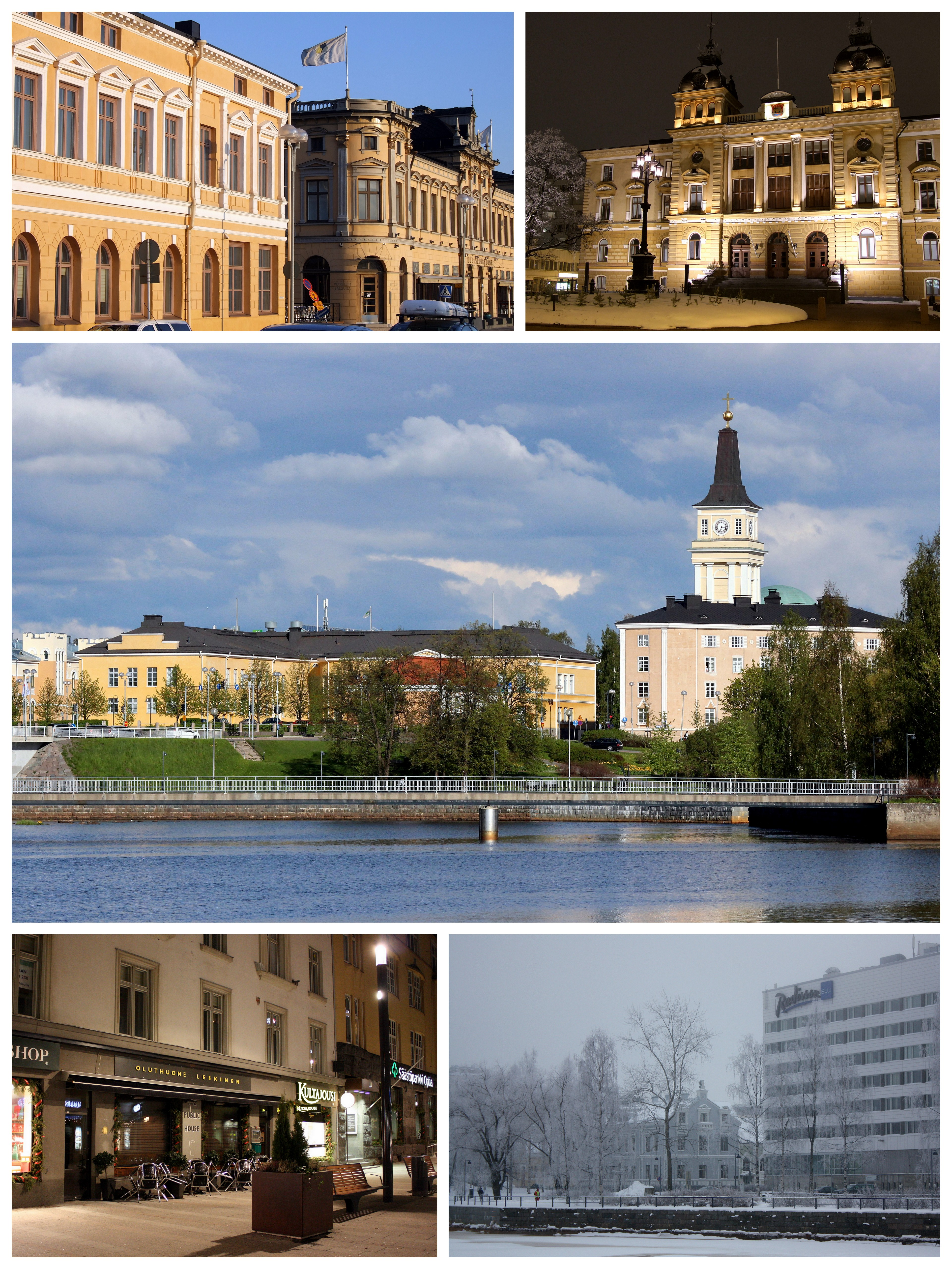 Montage of Pokkinen district in Oulu.